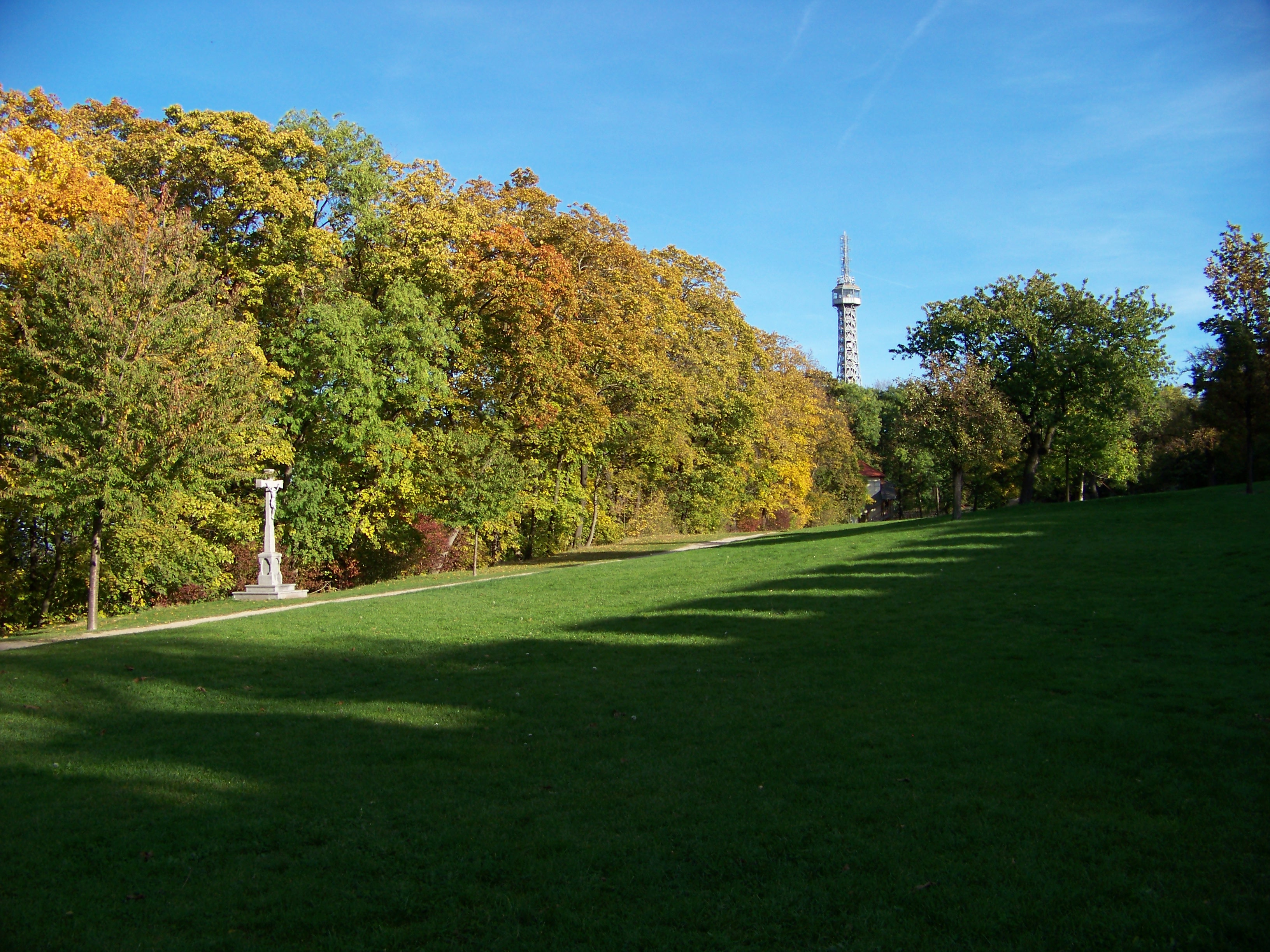 Prague-Hradčany, the Czech Republic. Petřín hill, Strahov Garden.